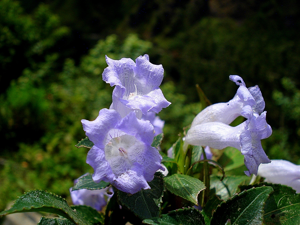 Neelakurinji (Strobilanthes Kunthiana) is a bush with several branches. The species name Kunthiana has been derived from the River Kunthi which flows through the rich expanse of the renowned Silent Valley National Park in Kerala. It means that the plant has been first described from the vicinity of this river. The plant grows profusely Shola grasslands and mountain slopes of the mighty Western Ghats and Nilgiris in India. Neelakurinji blooms in a clustered manner on typical inflorescence stocks once in every 12 years. The flowering season ranges between August and November with a peak period of late September and October although some varieties exhibit little variation in their phrenology. The flower has purplish blue colour when aged. It looks light blue in the earlier stage of blooming.